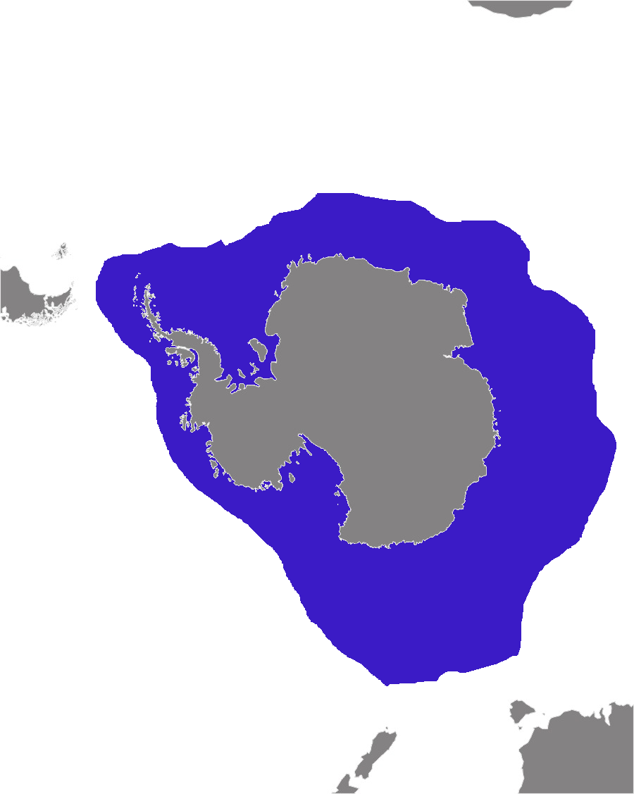 Distribution of the leopard seal